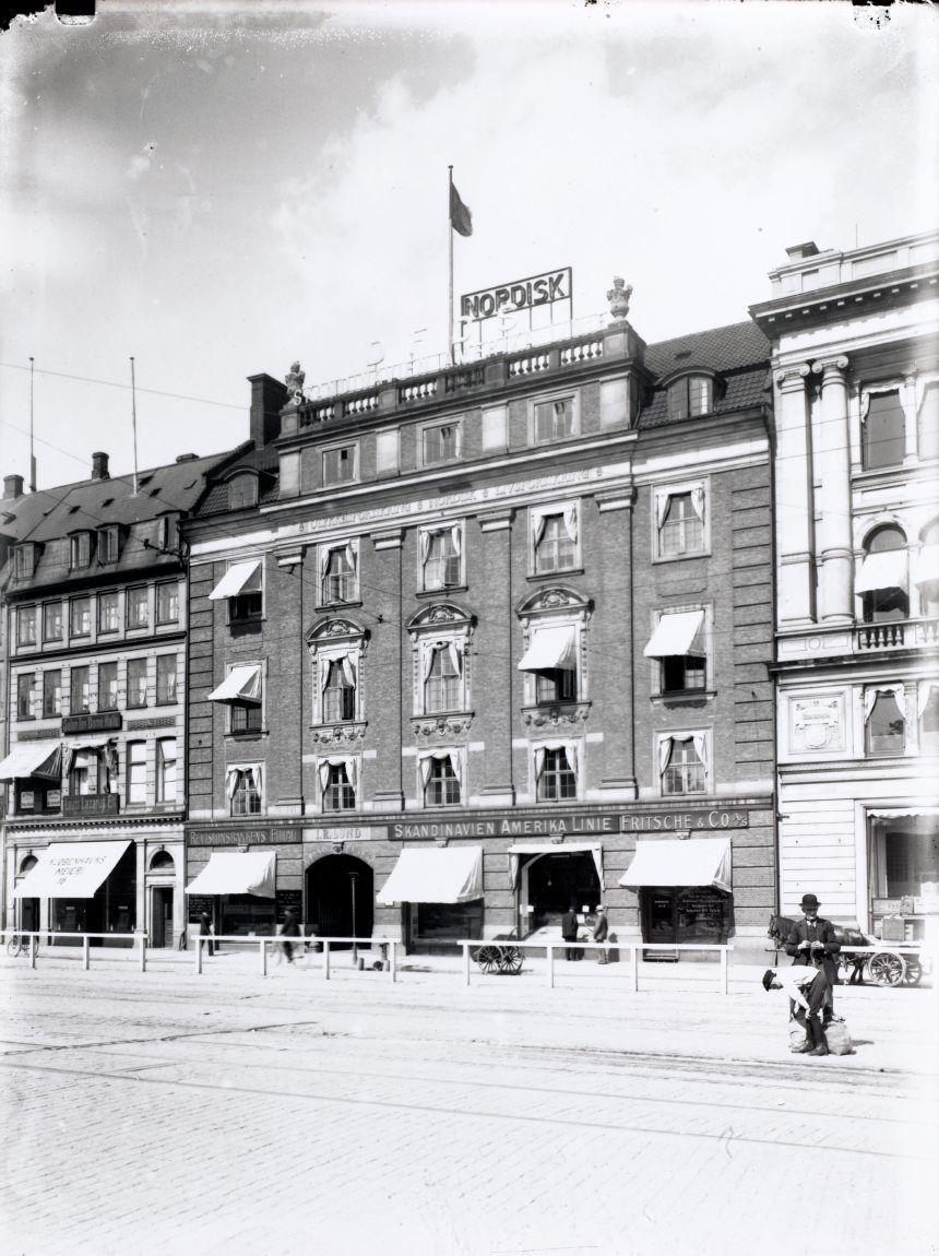 The head office of Scandinavian America Line at Kongens Nytorv 14 in Copenhagen, Denmark